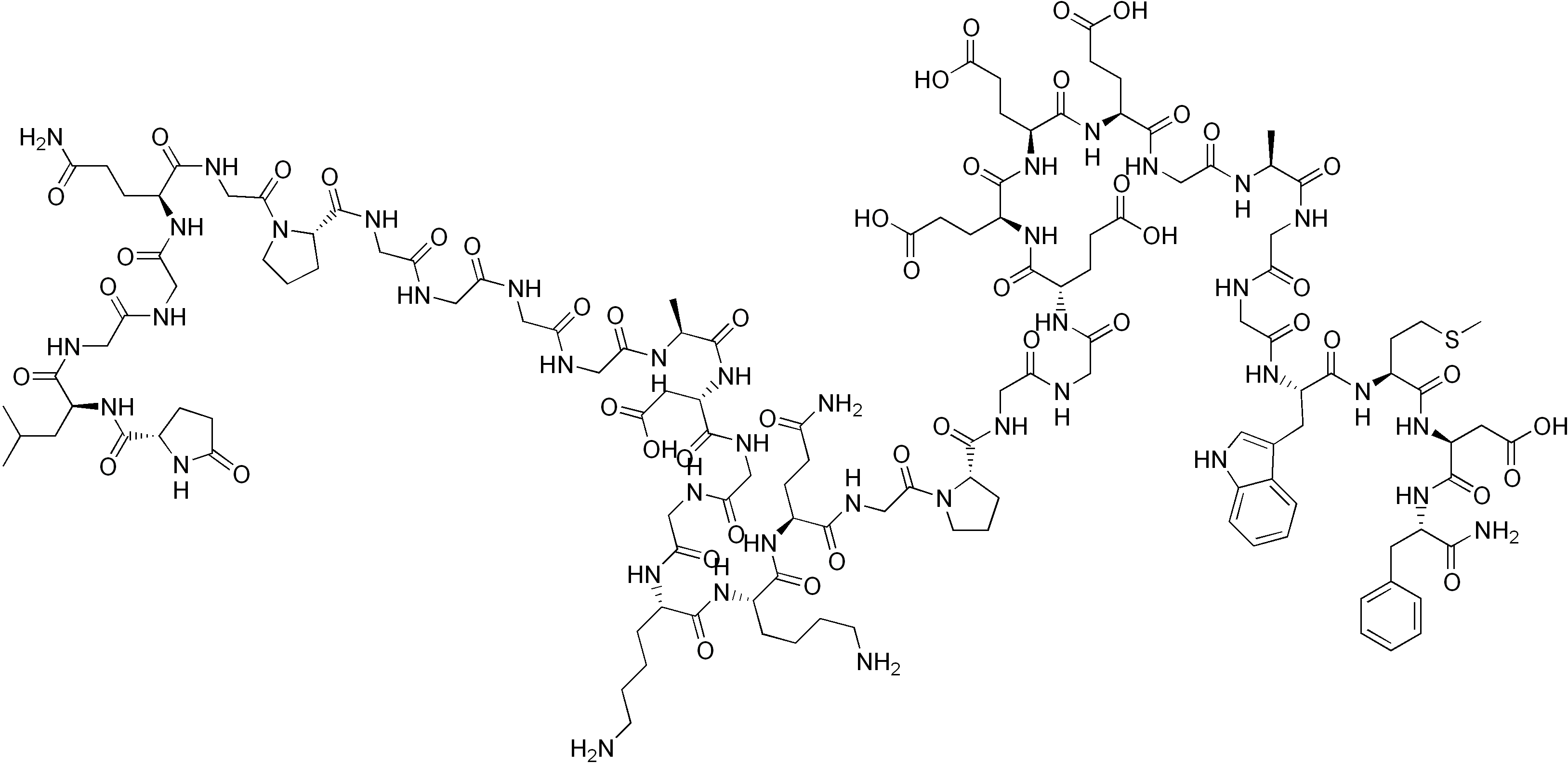 chemical structure of big gastrin